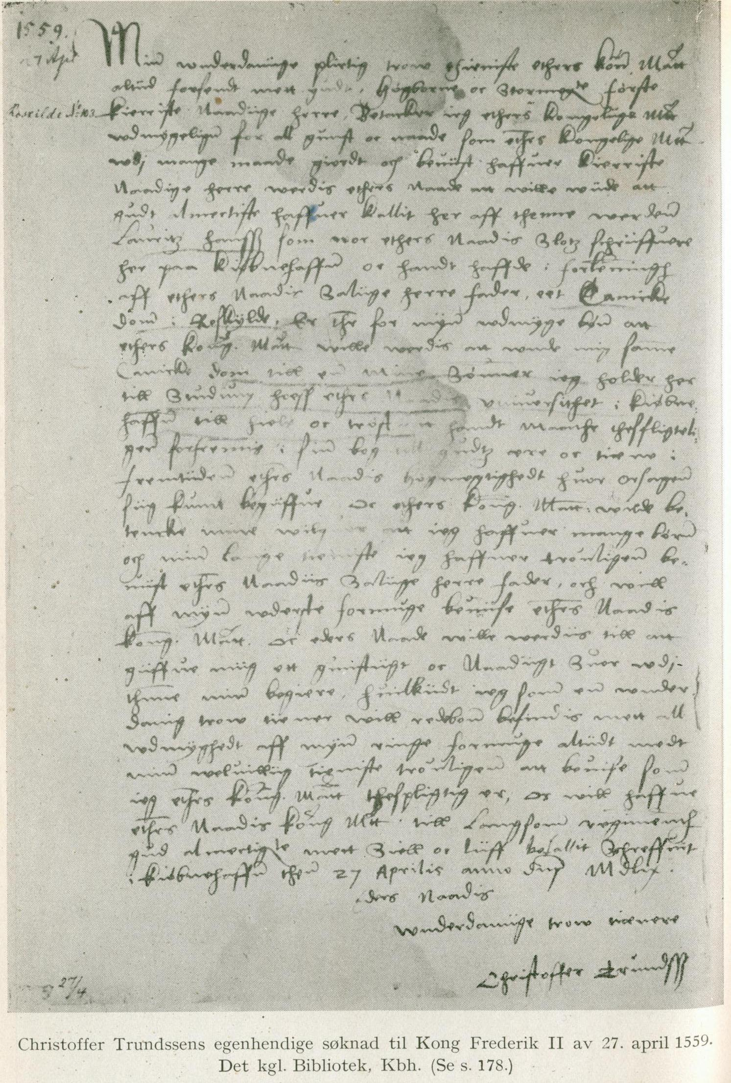 Letter from Kristoffer Throndsen, asking forgiveness for his piracy attacks on the Danish fleet, asking for a post with the Royal Navy. Sent to King Christian III, 1559.